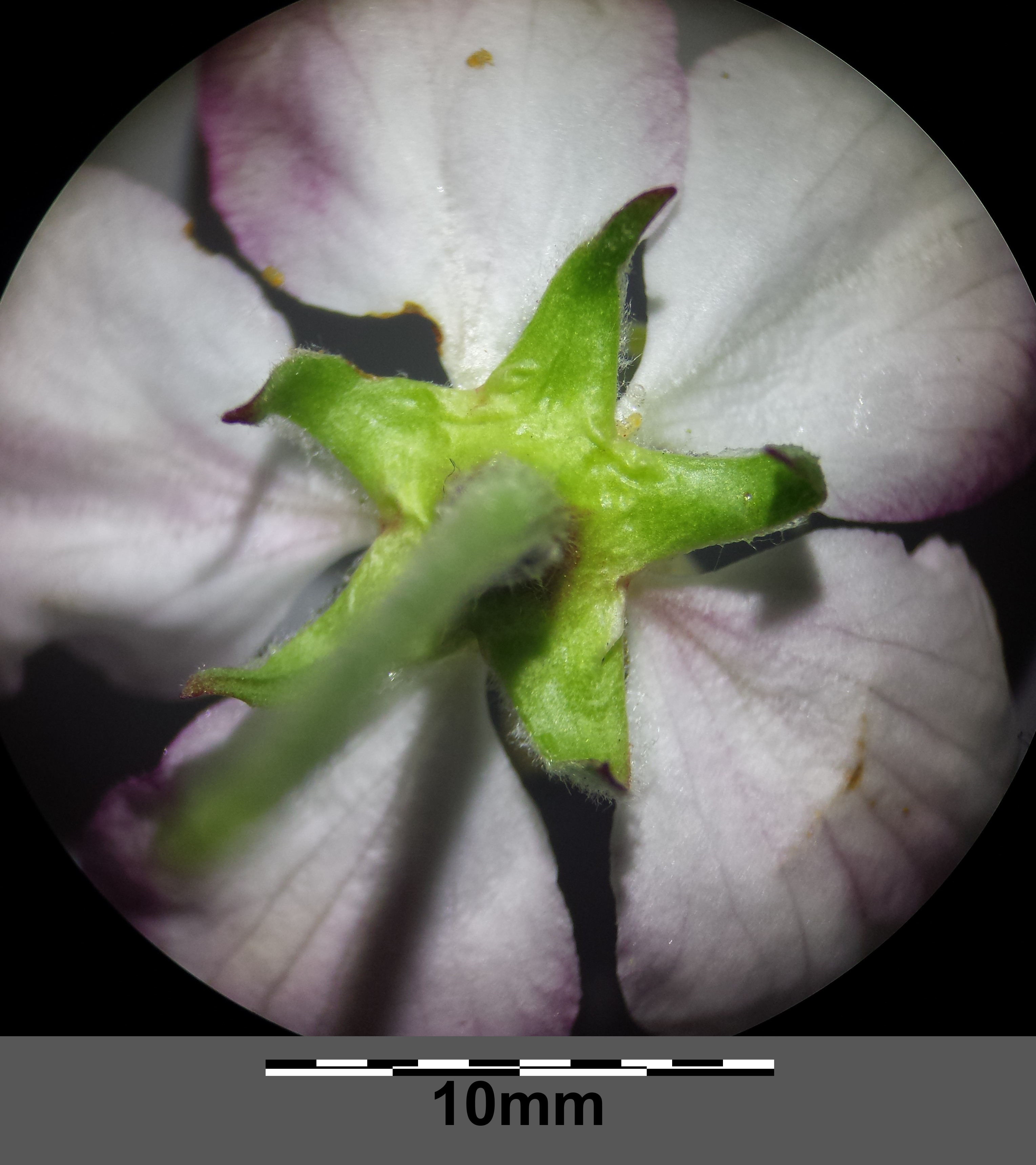 Glabrous sepals Taxonym: Malus sylvestris ss Fischer et al. EfÖLS 2008 ISBN 978-3-85474-187-9 Location: Rohrwald, district Korneuburg, Lower Austria - ca. 300 m a.s.l. Habitat: Carpinion betuli